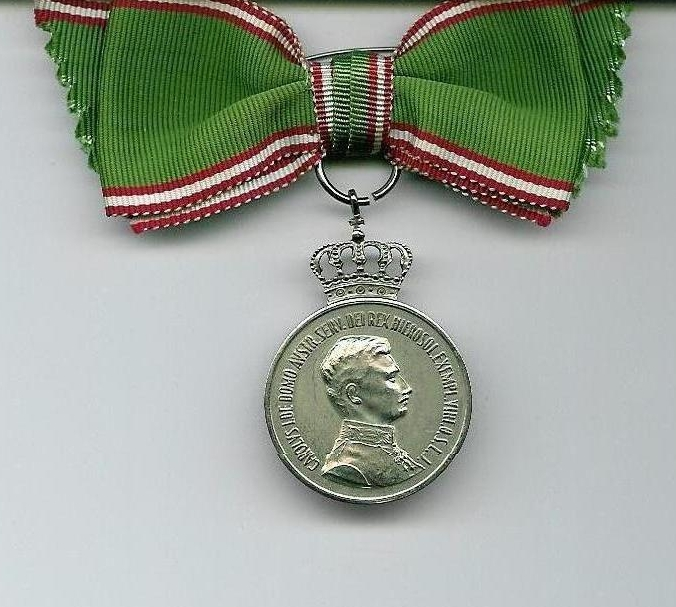 The Merit Medal of the Austrian Priory of the Order of St.Lazarus